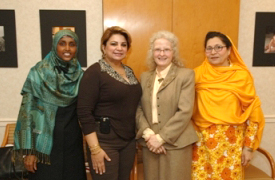 (l-r): Farhiyo Farah Ibrahim (Somalia), Eaman Al-Gobory (Iraq), Wanda Jones, M.D., Deputy Assistant Secretary for Health (HHS), Begum Jan, M.D. (Pakistan)